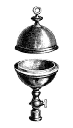 Drawing of a small pair of Magdeburg hemispheres from 1870s, used for demonstrating atmospheric pressure in natural philosophy classes. About 4-5 inches diameter. Magdeburg hemispheres were invented by Otto von Guericke in 1650. To use, the edges of the hemispheres were greased and pressed together, and a vacuum pump was attached to the port at bottom. When the air was evacuated from the inside, the valve at bottom was closed and the pump detached and the hemispheres would be held firmly together by atmospheric pressure. To demonstrate the pressure, ropes would be attached to the ring at top and a ring that could be screwed into the bottom (not shown), and audience members would be invited to try to pull the hemispheres apart. The force holding them together is equal to the area bounded by the circular joint between the hemispheres, multiplied by the difference between the inside and outside air pressure. For 5 inch hemispheres this would be about 280 lb. Alterations to image: removed figure number, increased brightness, and converted JPG to 32 color PNG.